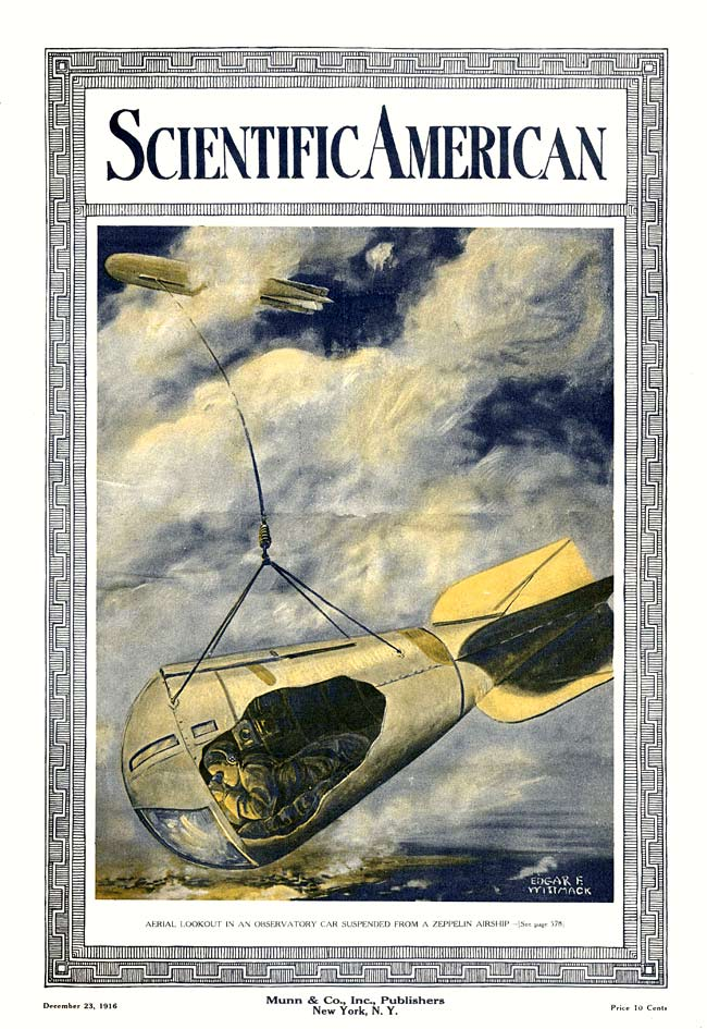 Aerial lookout in an observatory car suspended from a Zeppelin airship. This was Scientific American's front cover illustration 23 December 1916.